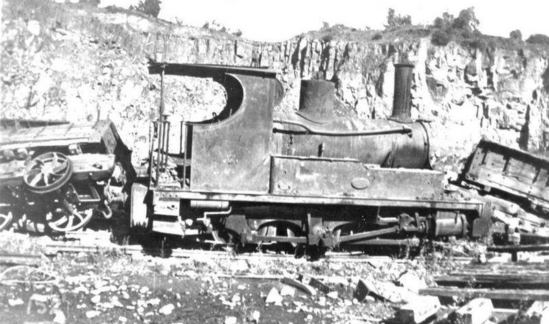 A side view of the former WAGR S class tank locomotive previously numbered S 162, which was originally owned by the Great Southern Railway and named Princess, in a derelict condition at Prospect quarry, Toongabbie, New South Wales. The locomotive was scrapped about 1938. Some of the information provided here about the image, including the identity of the author and the date of the work, is obtained from Gunzburg, Adrian (1984). A History of WAGR Steam Locomotives. Perth: Australian Railway Historical Society (Western Australian Division), pp. 59-60. ISBN 0959969039.